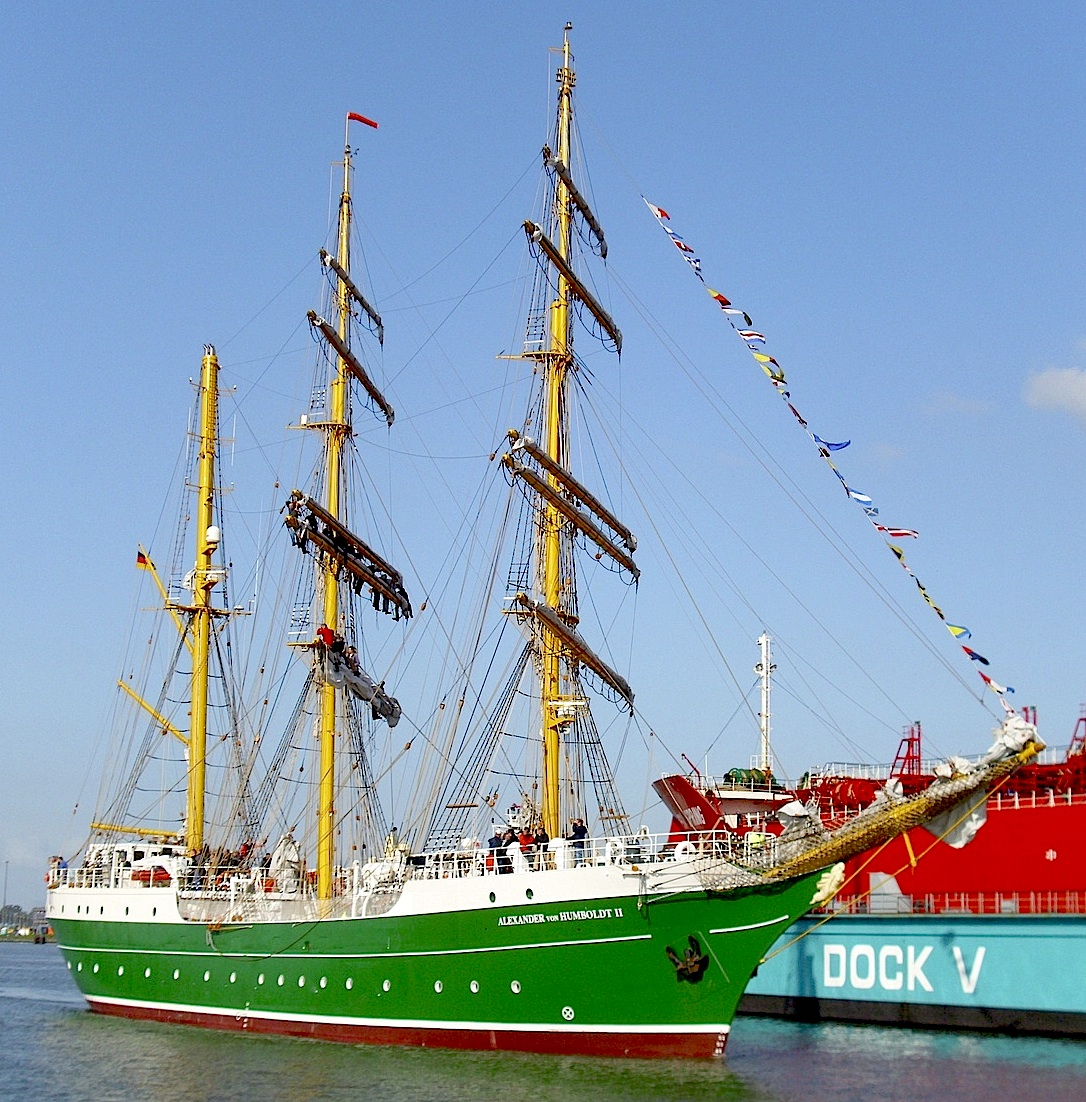 The sailing ship Alexander von Humboldt II in the port of Bremerhaven